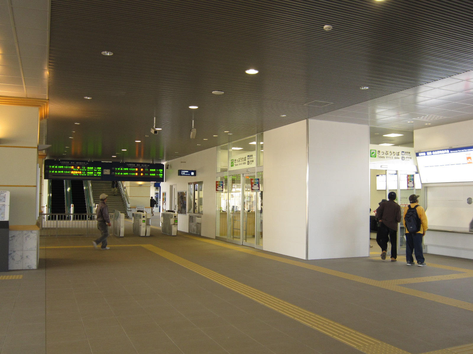 The ticket gate of Chikugo-Funagoya Station (Chikugo, Fukuoka, Japan)